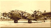 Italian Piaggio P.108 heavy bomber